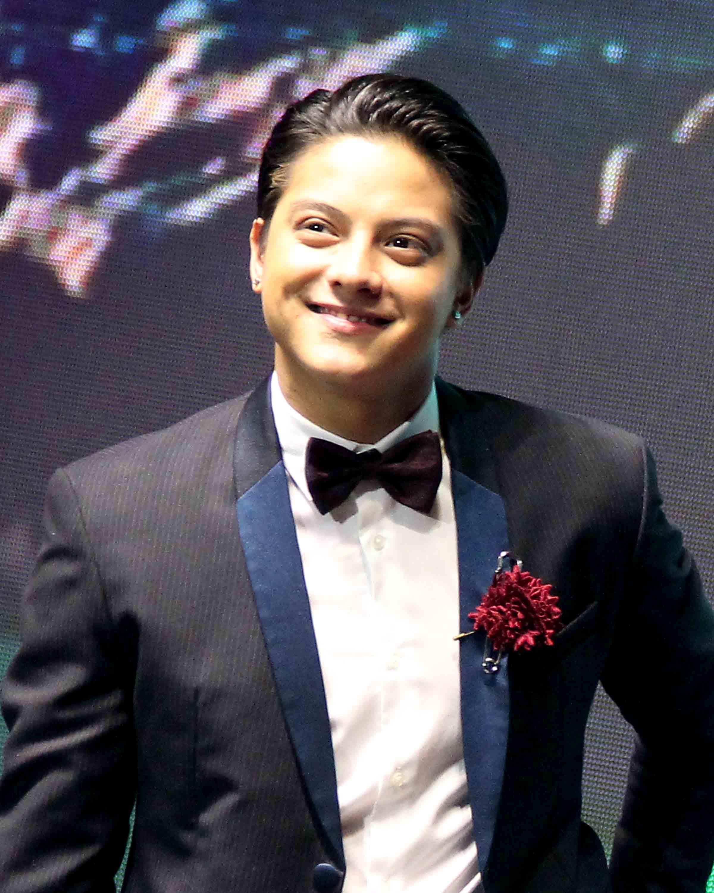 Daniel Padilla at Celebrate Mega in Iceland event, 2016